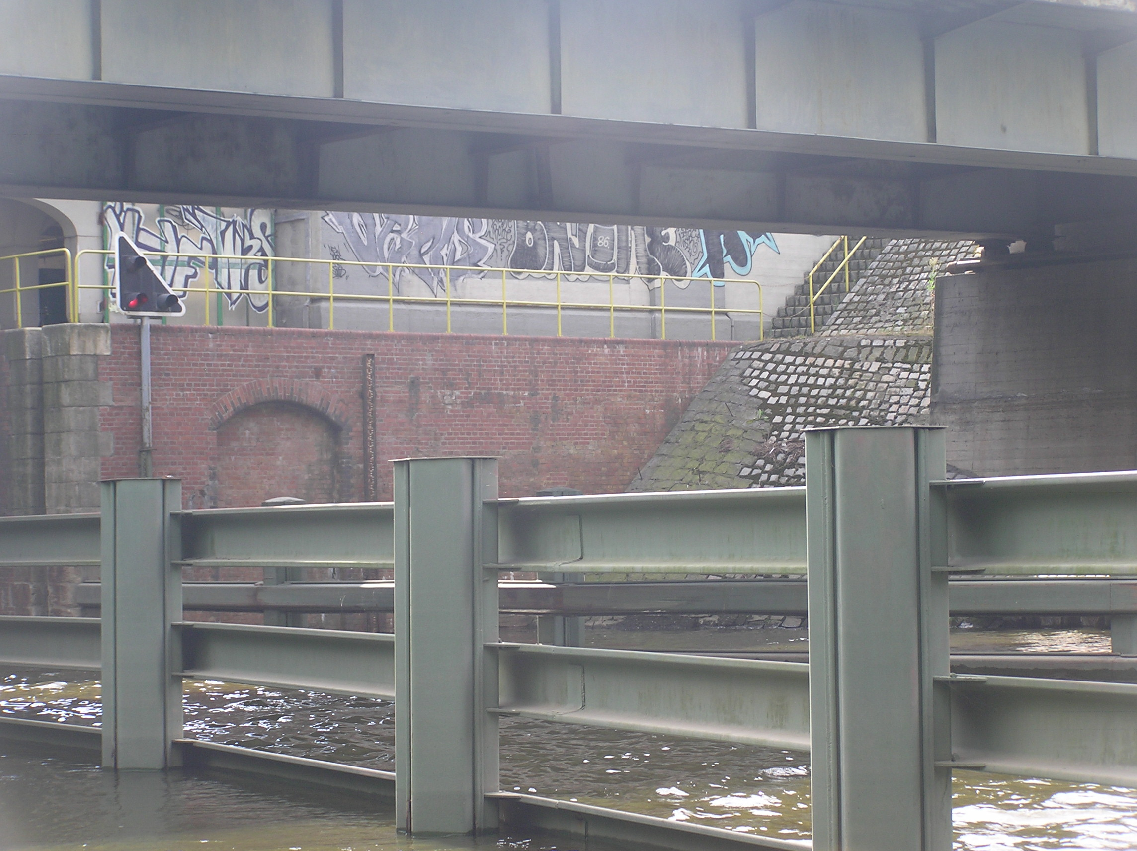 Wrocław, Zacisze Lock and Jagiellońskie Bridges